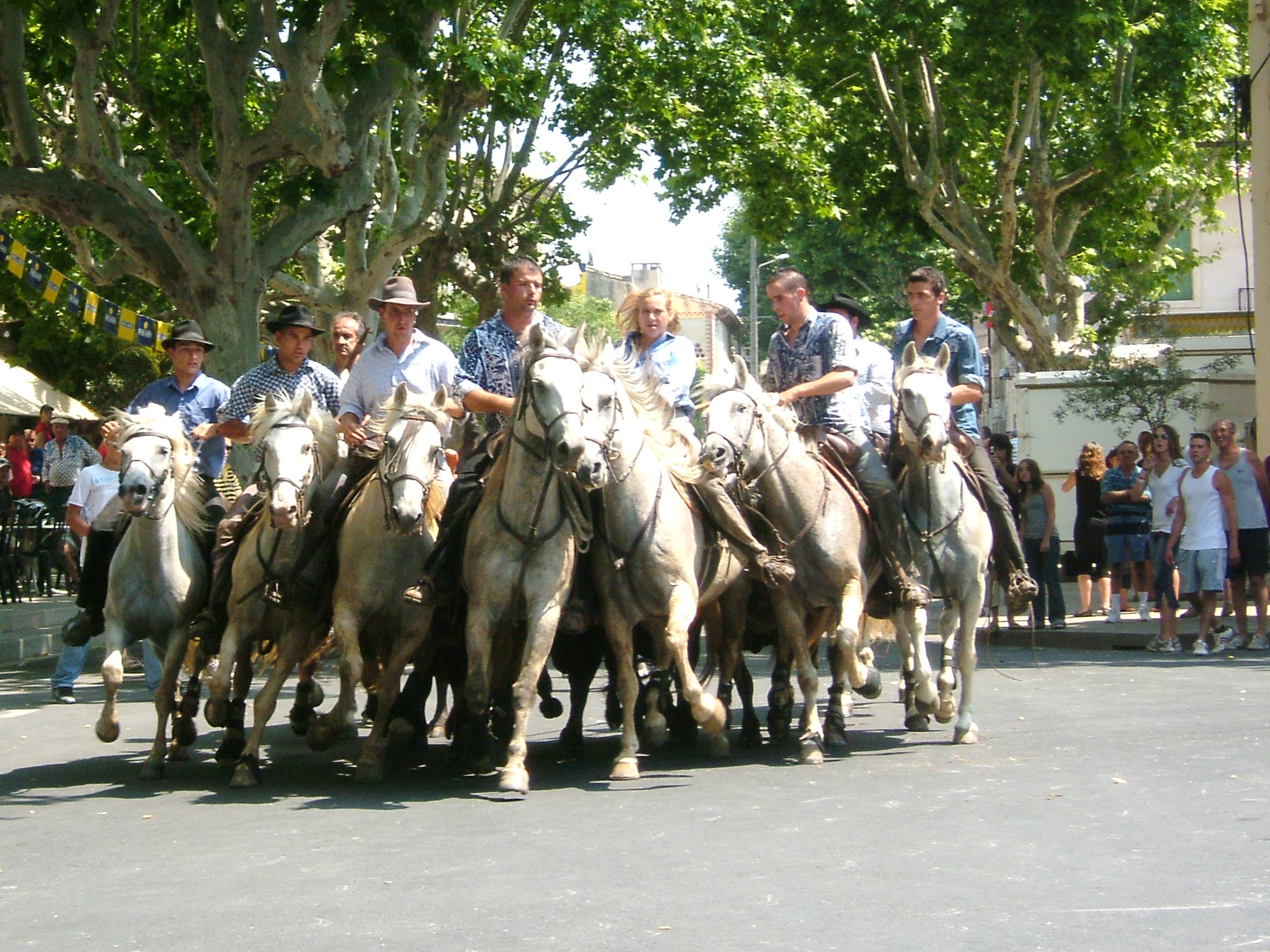 At an abrivado at 30420 Calvisson. The guardians on horse back are riding at speed with a group of at least four bulls. They are demonstrating their ability to keep the bulls together while they execute a 360 degree turn. - Google Maps - Google Earth